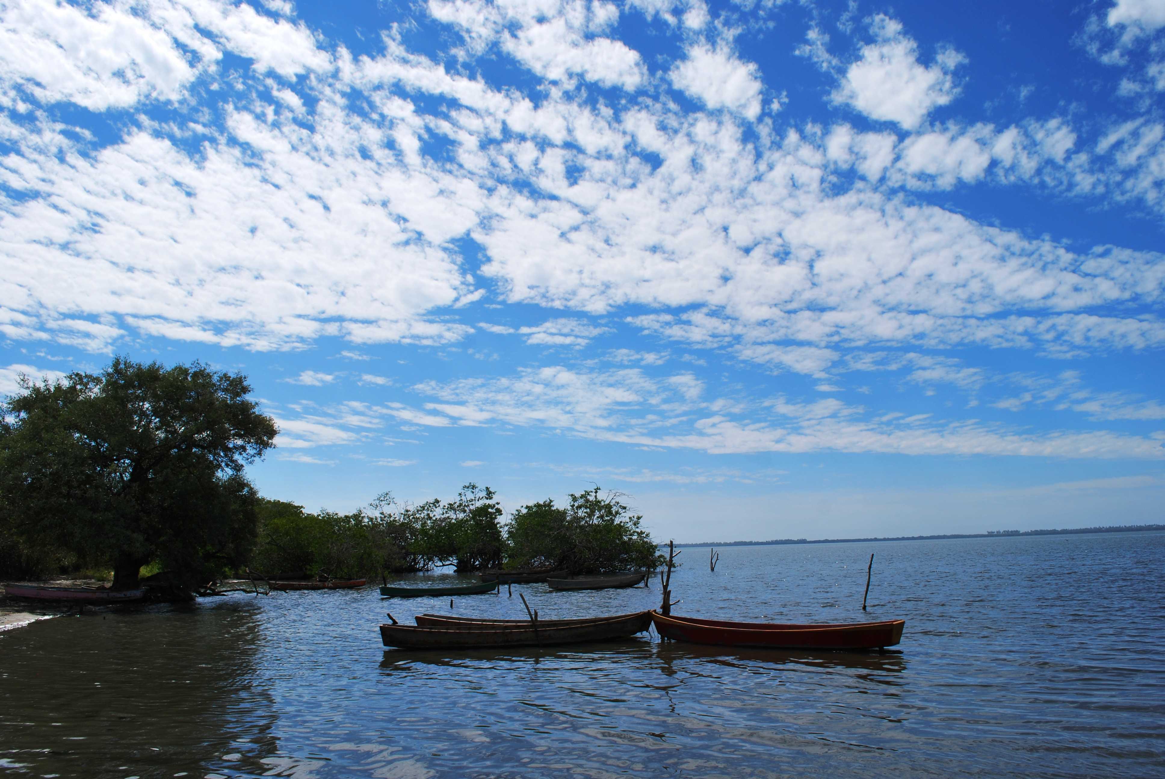 Boat on lagoon at Chautengo, Cruz Grande, Mexico